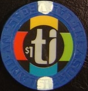 A casino token or chip from Treasure Island Hotel and Casino.